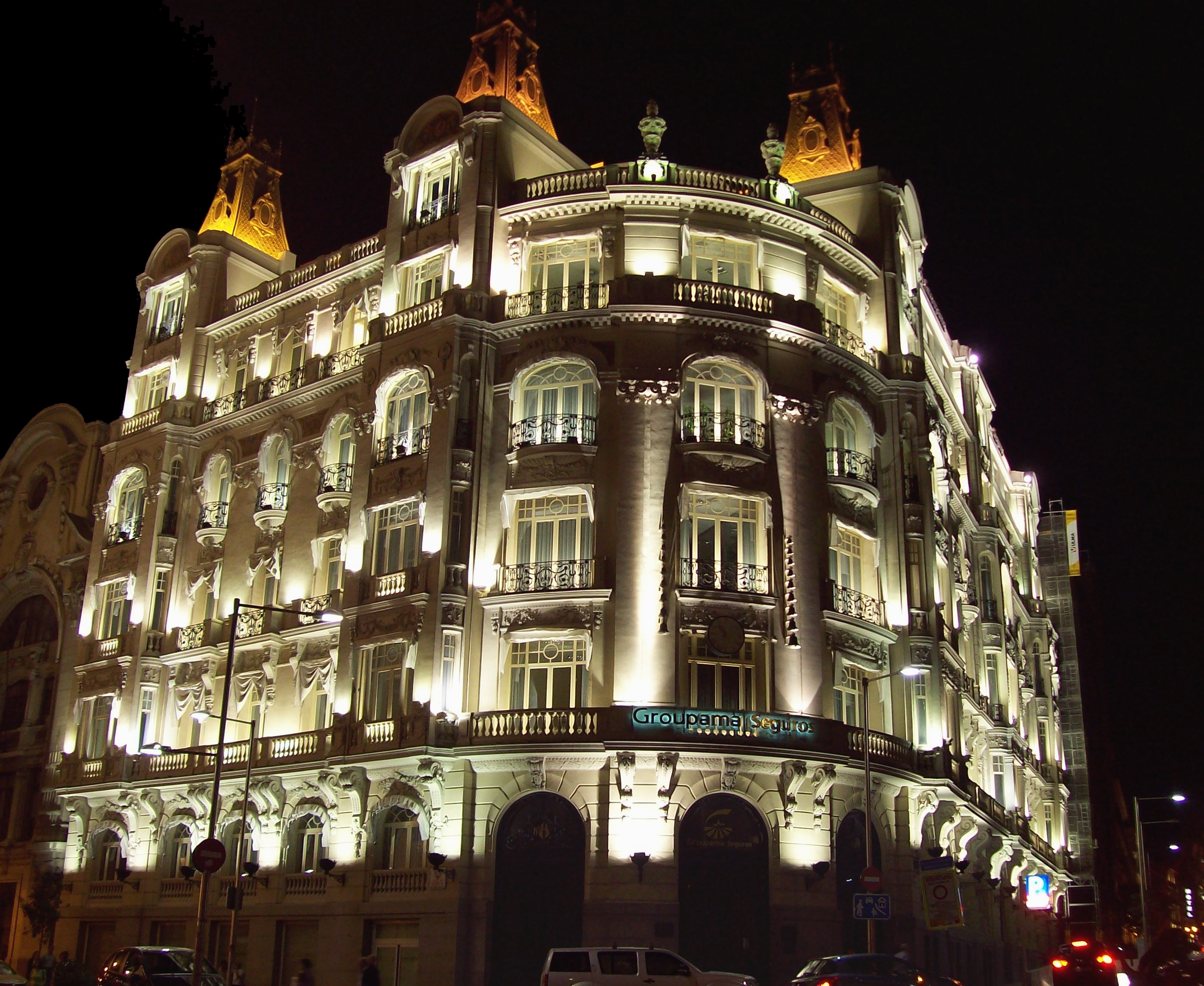 Night view of Groupama Building at 8th Plaza de las Cortes (square) in Madrid (Spain). It was originally projected in 1910 by architect Joaquín Rojí López-Calvo and built from 1911 to 1913 as a housing for the marquis of Amboage.